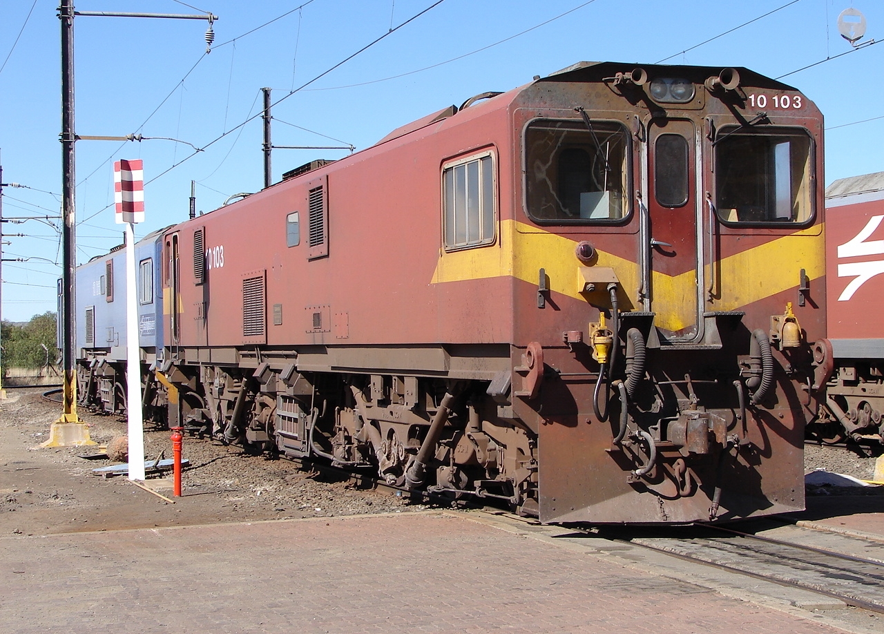 SAR Class 10E2 10-103 Location: Beaconsfield, Kimberley, Northern Cape